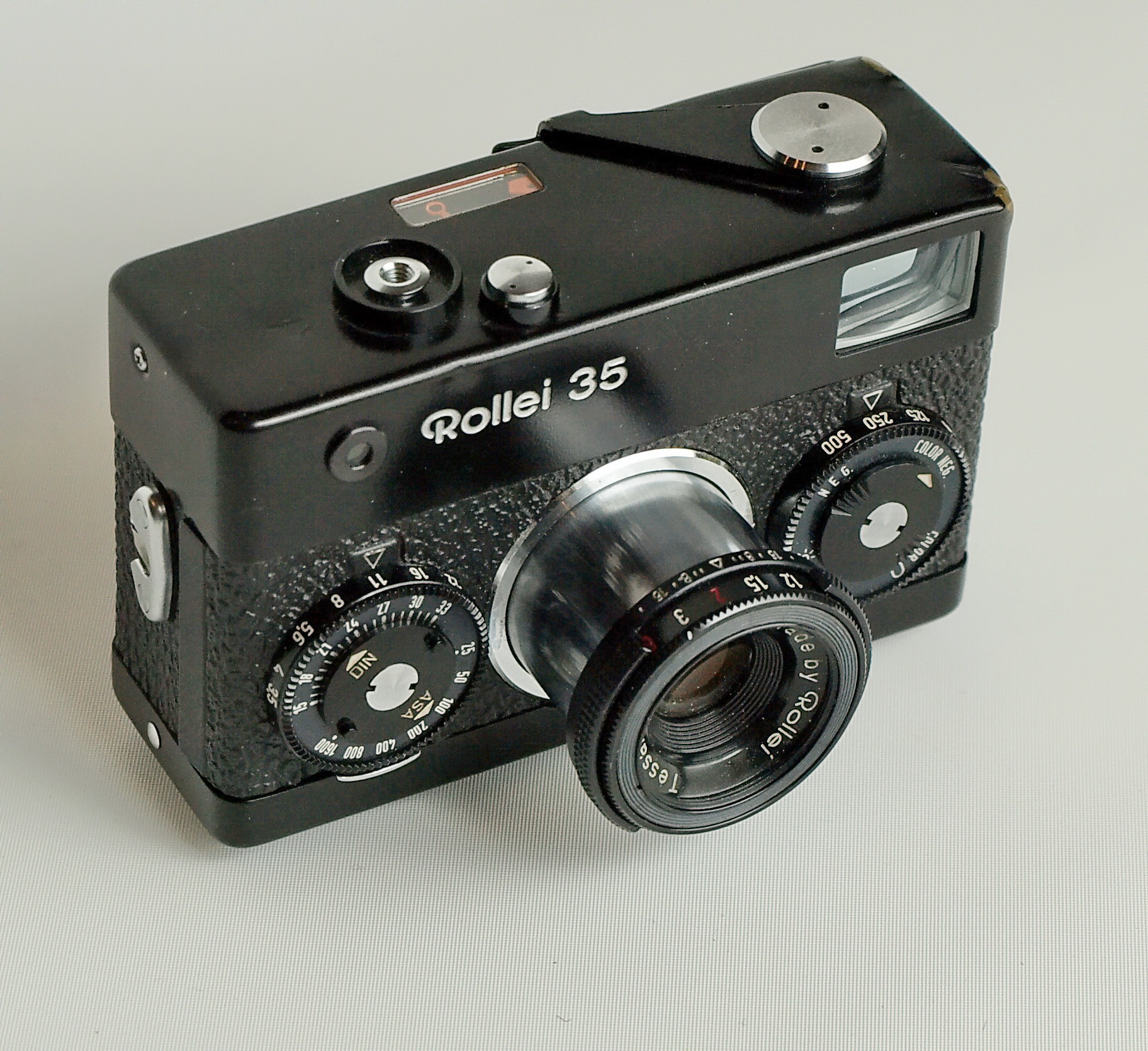 Rollei 35 1:3,5 40mm. 35mm camera.